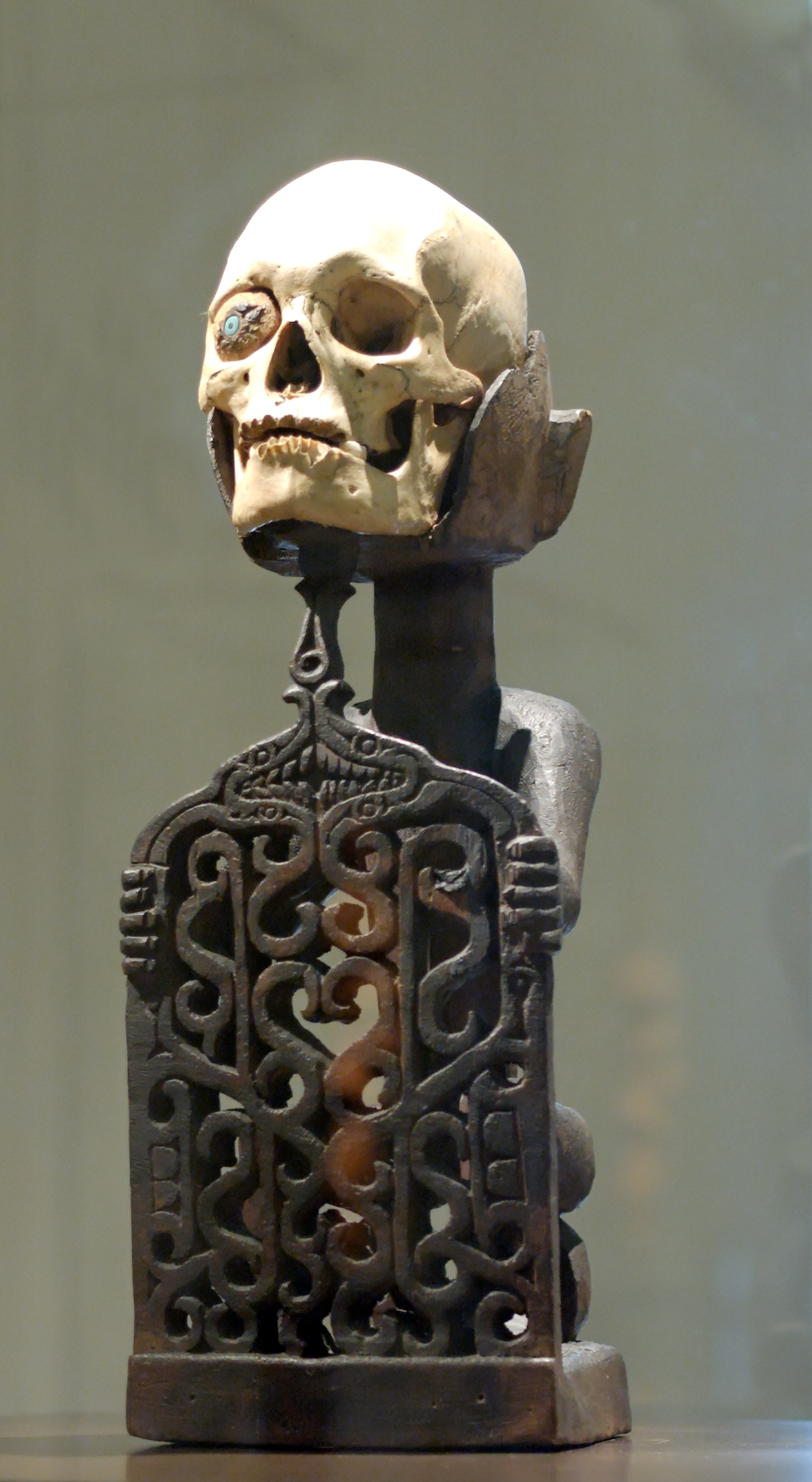 Korwar reliquary: ancestor figure protecting the household. Wood and human crane, Geelvink Bay, Irian Jaya (Indonesia), late 18th century.